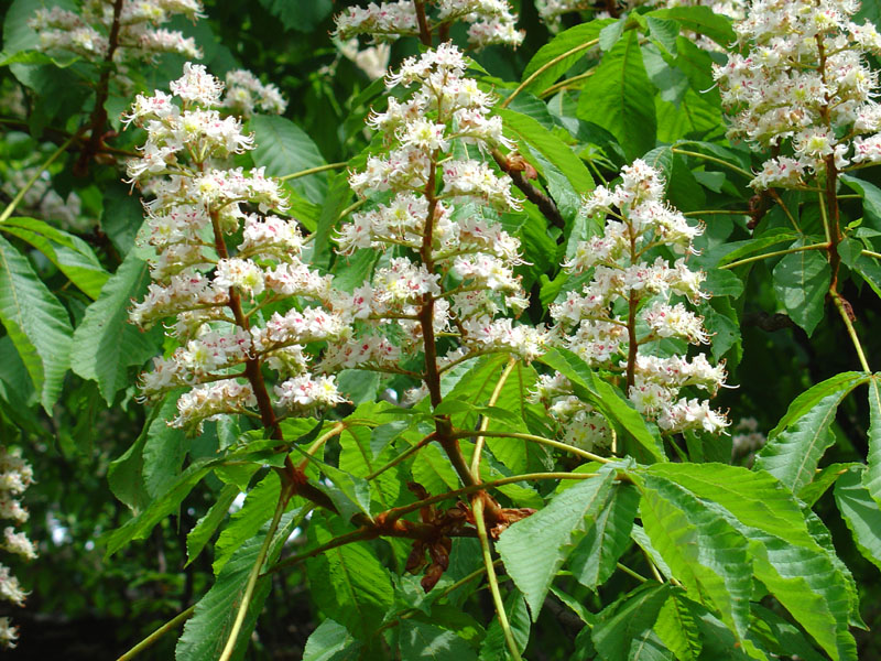 The flowers of chestnut , spring 2006 Jaroměř Czech republic